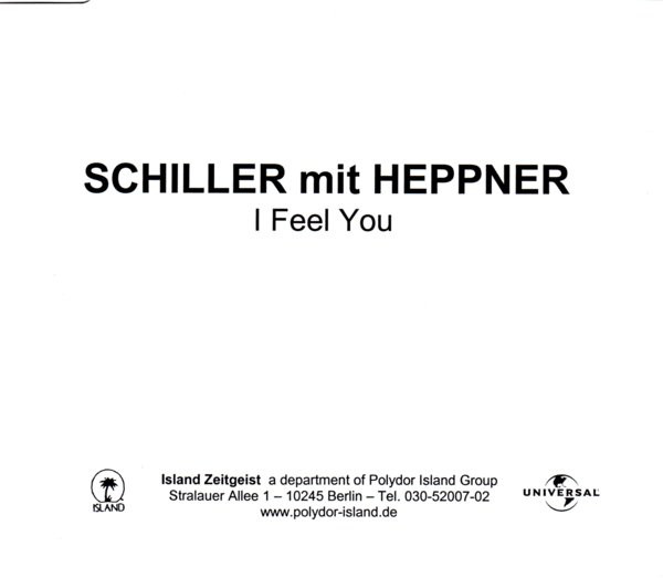 „Leben … I Feel You“ Promo-Single-Cover by Schiller mit Heppner.